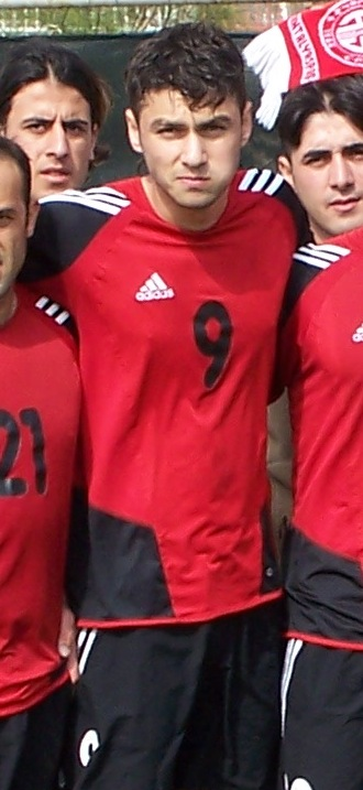 Burak Antalyaspor kampında. 8 Ocak 2003